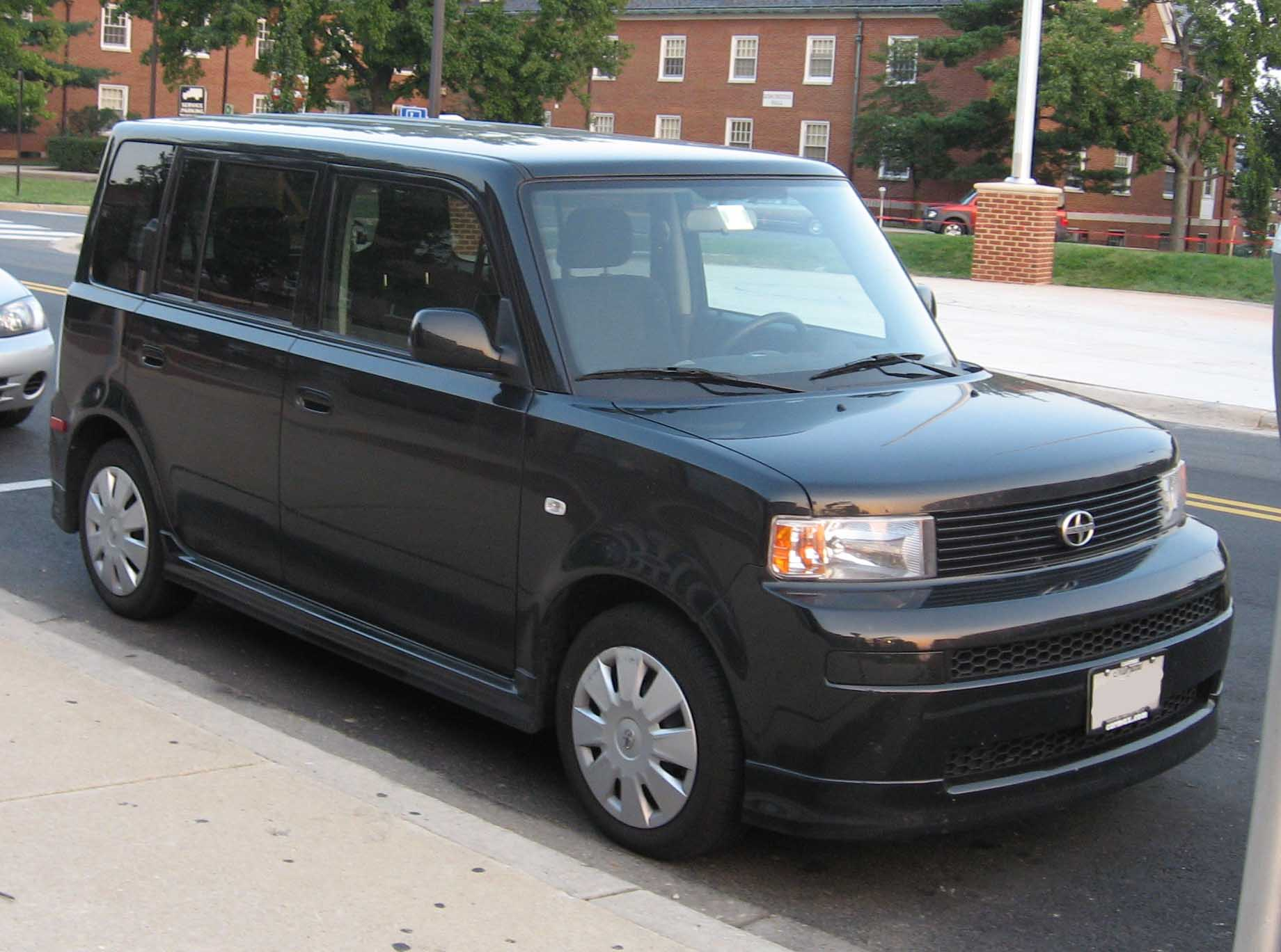 2006 Scion xB photographed in USA.